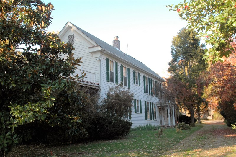 Photo taken in November 2006 of Merrybrook in Herndon, VA. Donated to public domain.